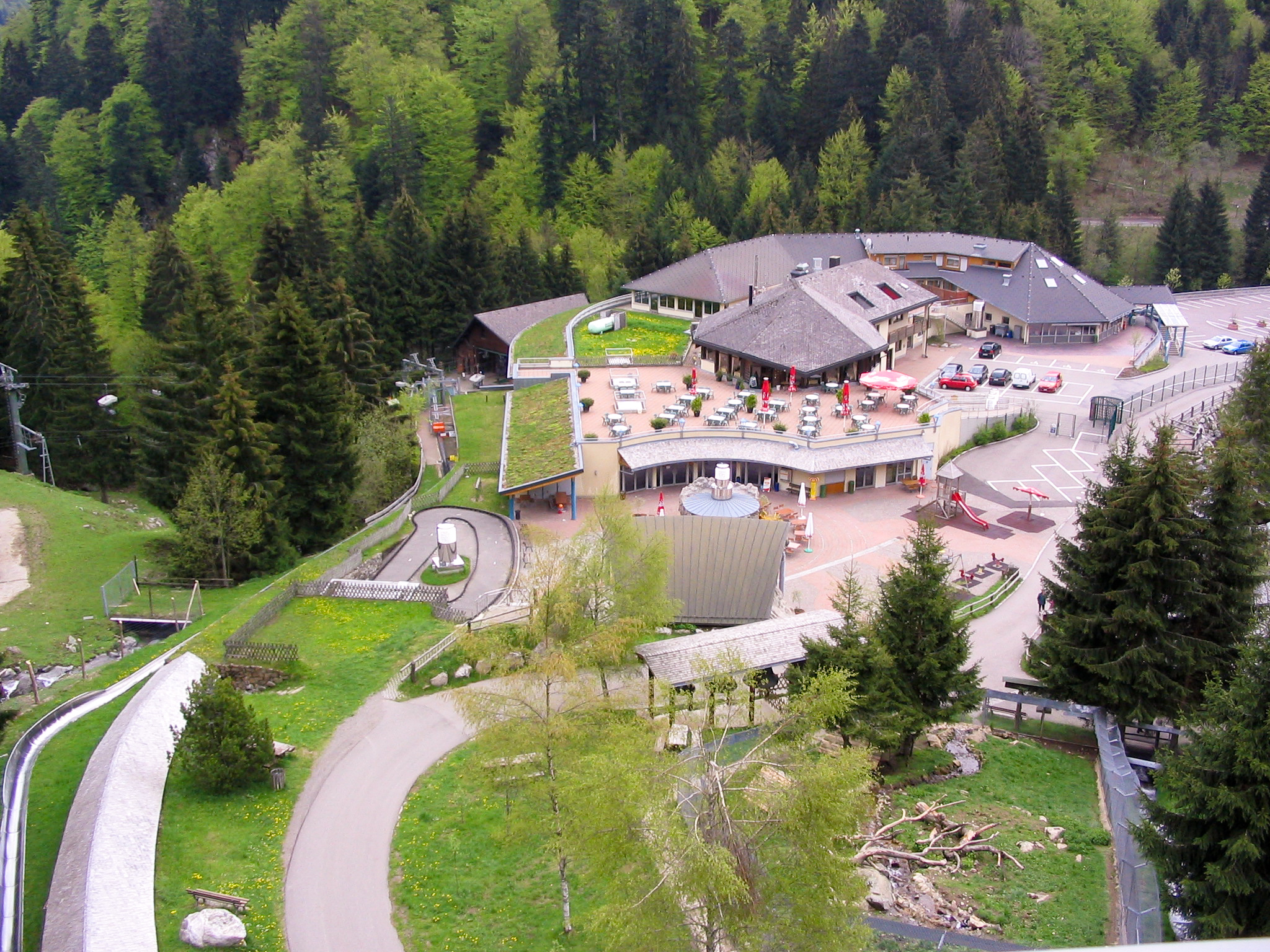 Steinwasen-Park main building and entrance